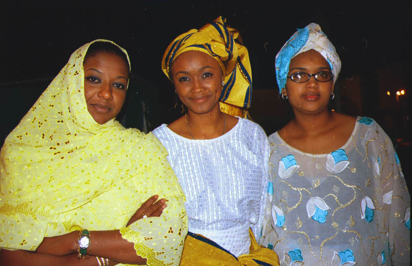 Three Hausa women